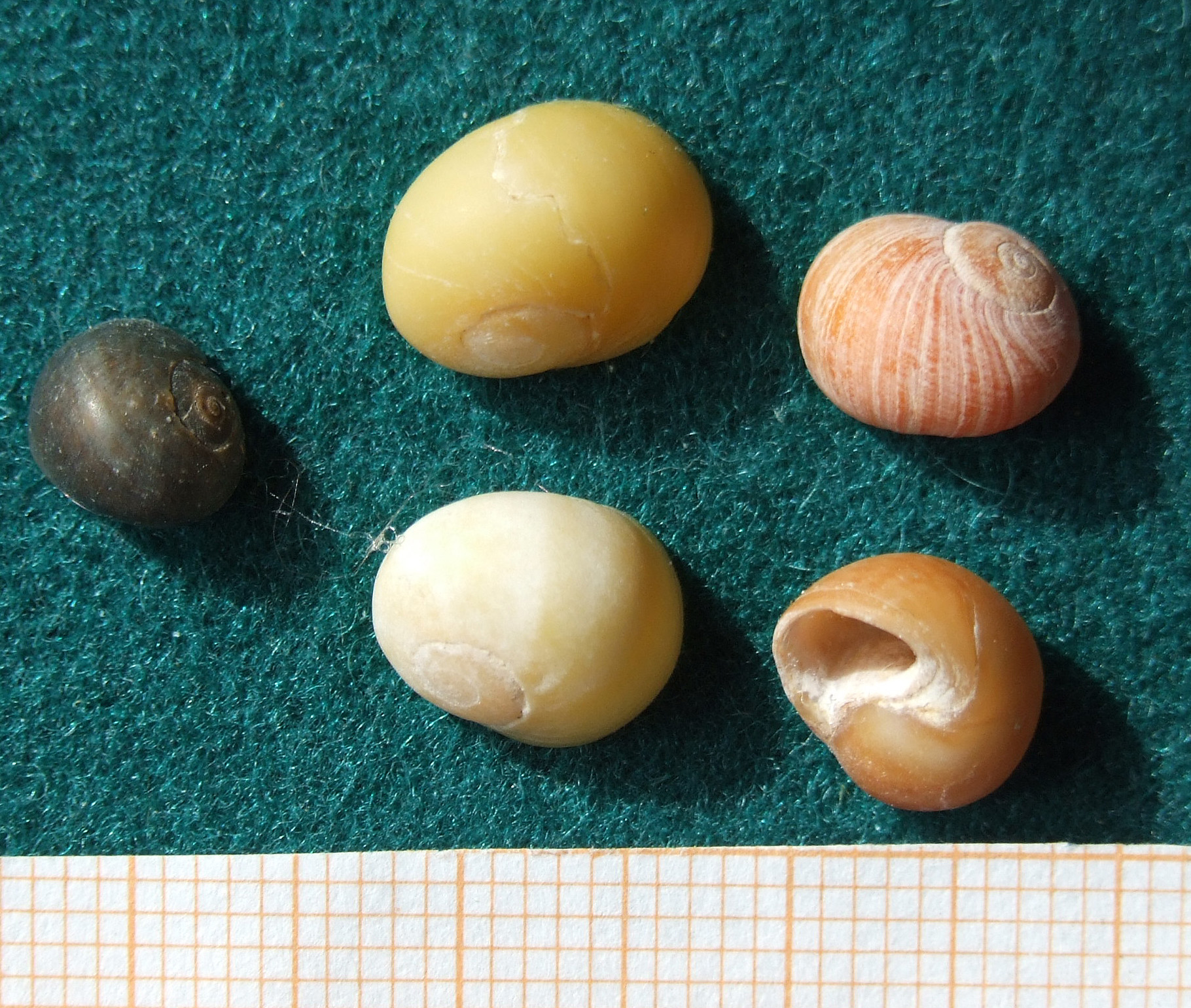 Flat periwinkle, Littorina obtusata (Linnaeus, 1758), Sylt, Germany